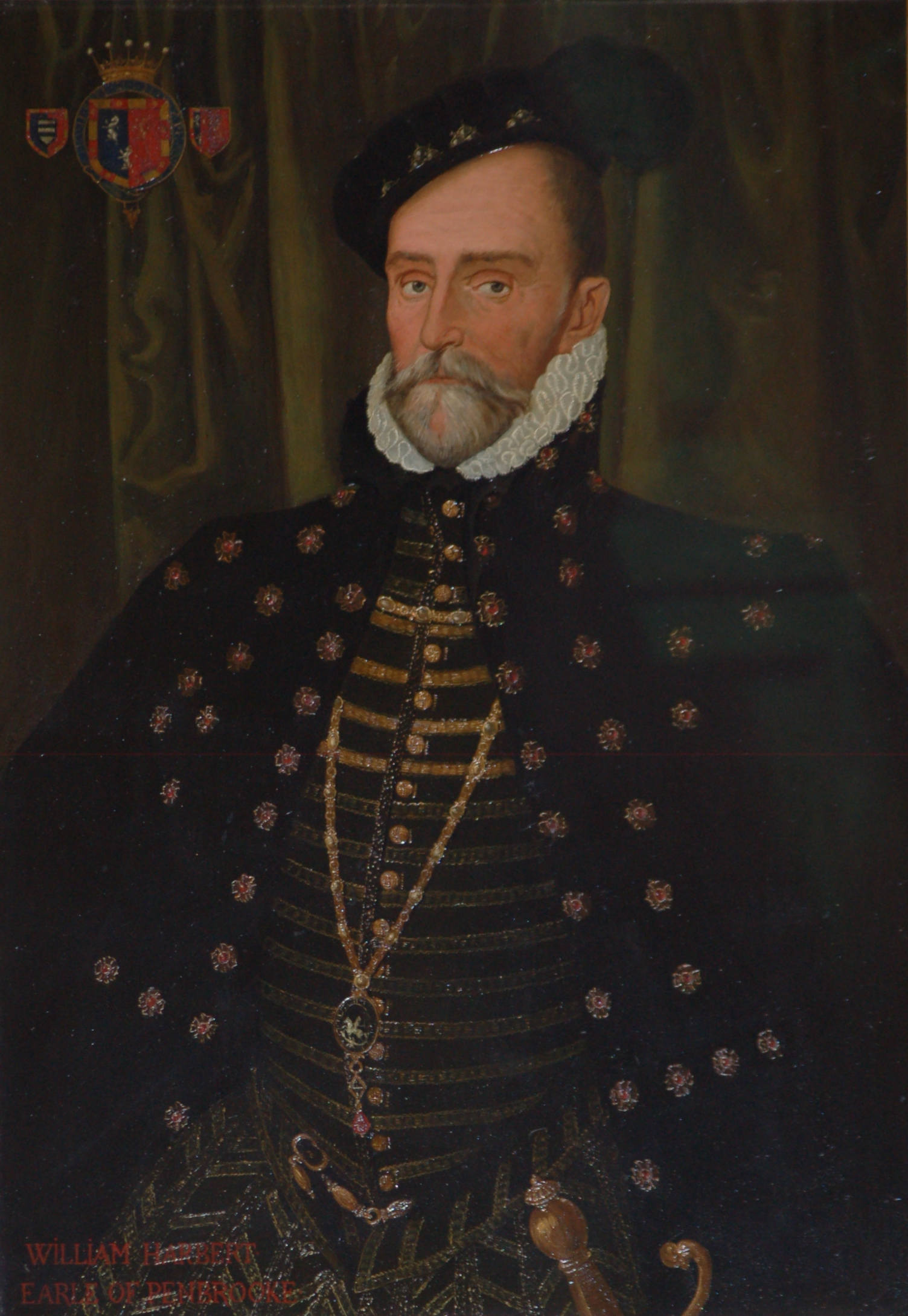 Head and shoulders portrait of William Herbert, 1st Earl of Pembroke